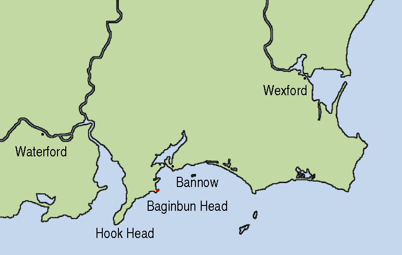 Map showing the location of Baginbun Head where Raymond le Gros landed in 1170 in Ireland. Waterford and Wexford were Norse settlements at that time. The first landing of the Normans took place at Bannow Island in 1169. (This island meanwhile joined the mainland.)